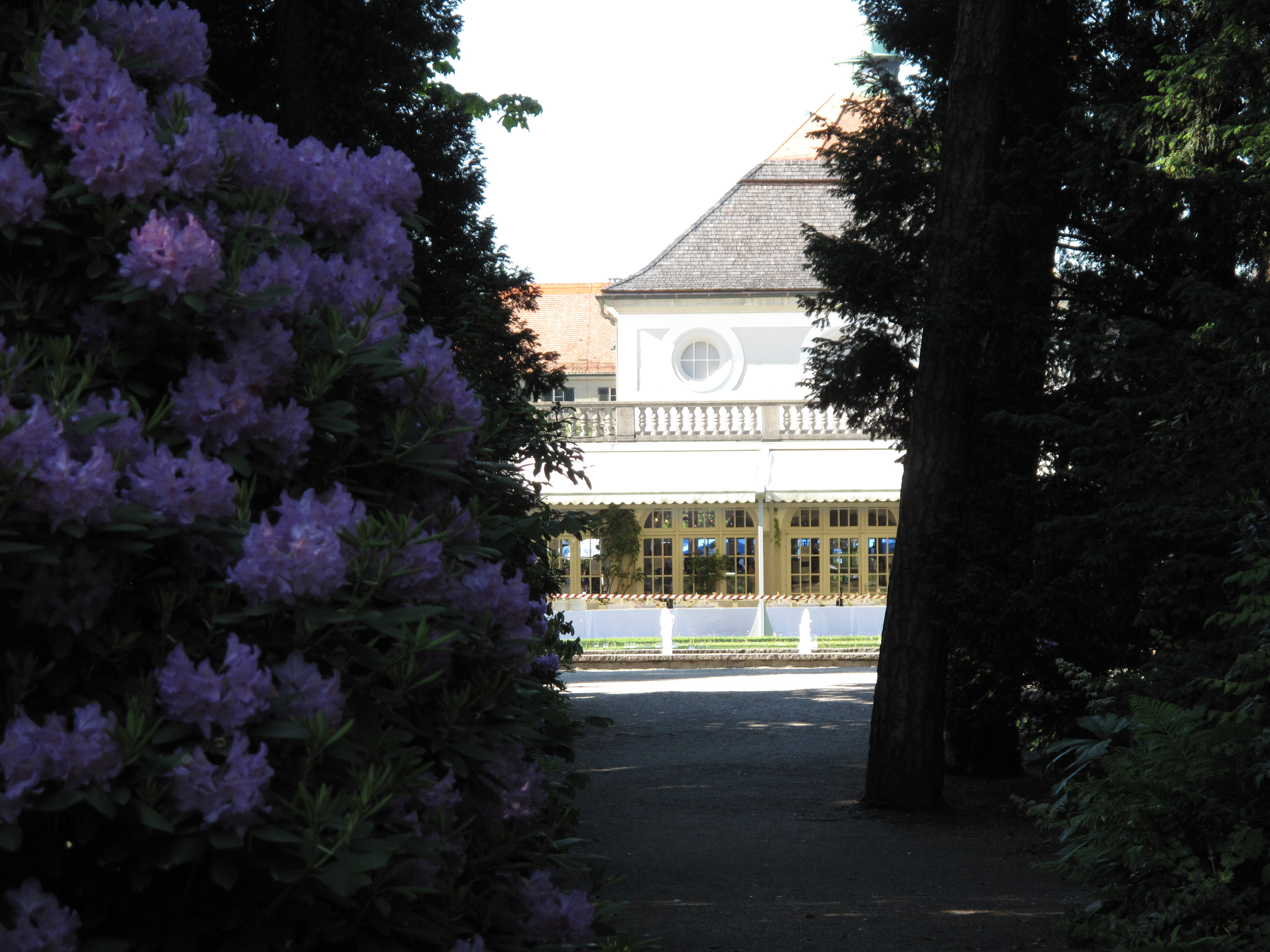 Botanic Garden Munich (Nymphenburg), Café